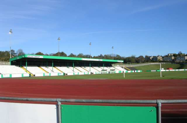 Horsfall Stadium - Cemetery Road. This is the home of Bradford Park Avenue Football Club who play in the Unibond League. There is a running track around the football pitch.